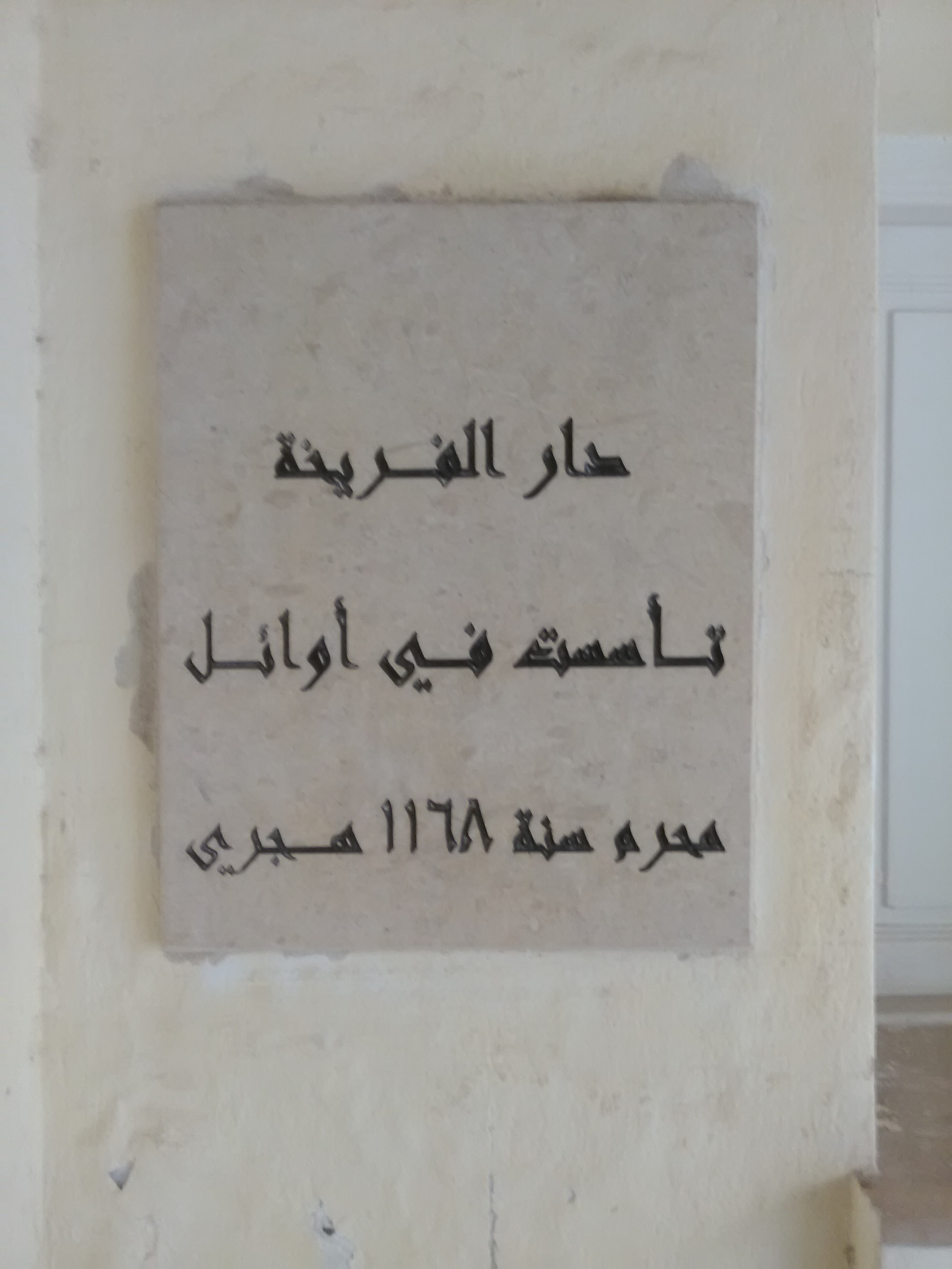 Dar Frikha, a cultural space in the medina of Sfax